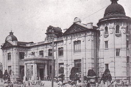 Bank of Chosen